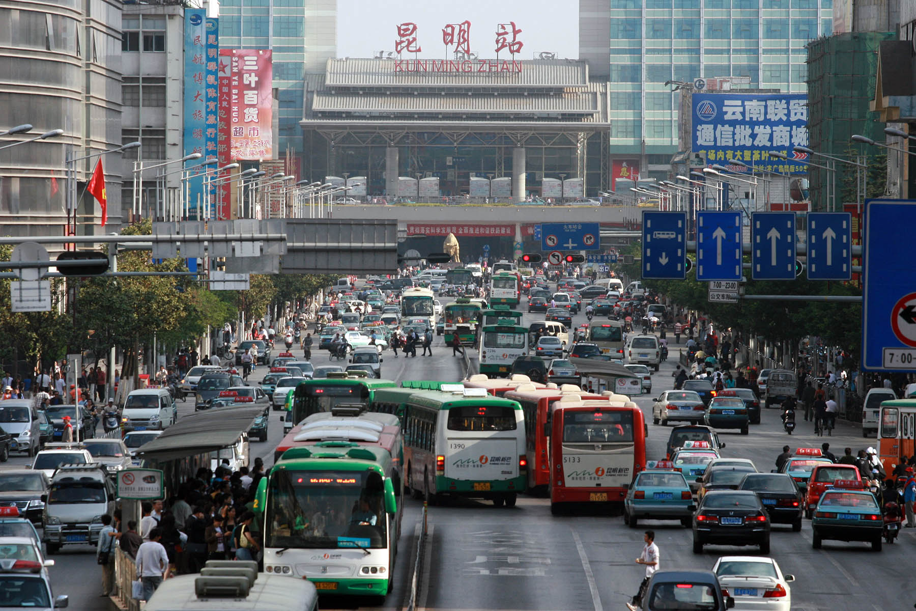 The main rail station of Kunming, Yunnan, China as of 2008